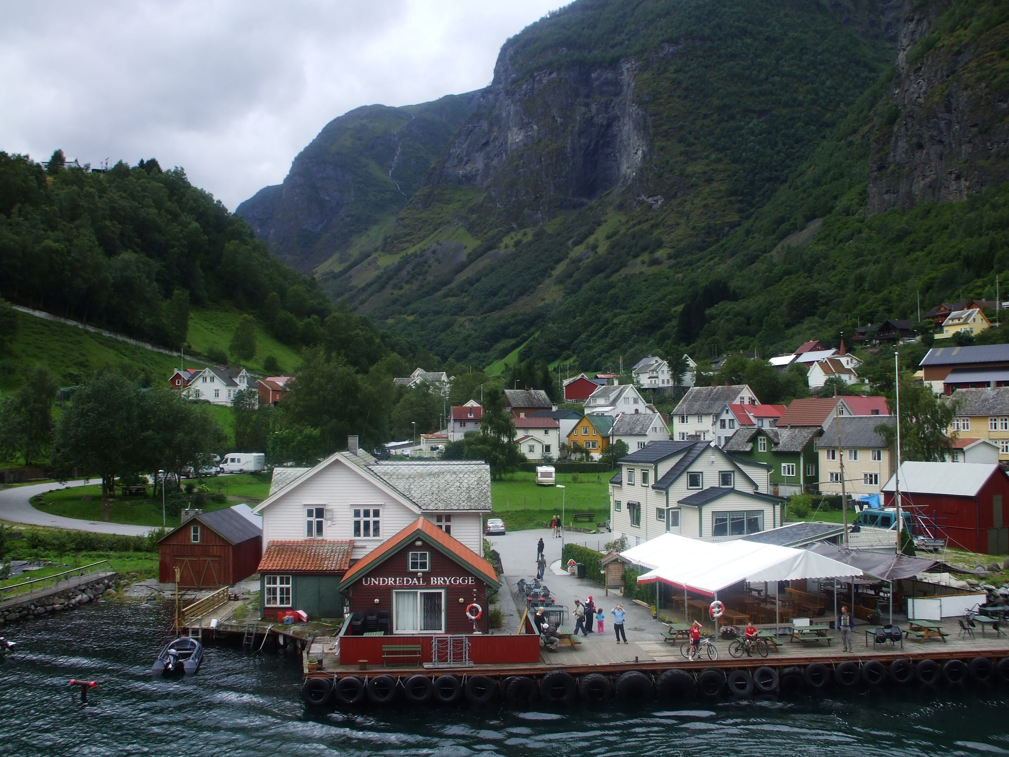 Undredal in Aurland, Norway. Original description: Village on the fjord